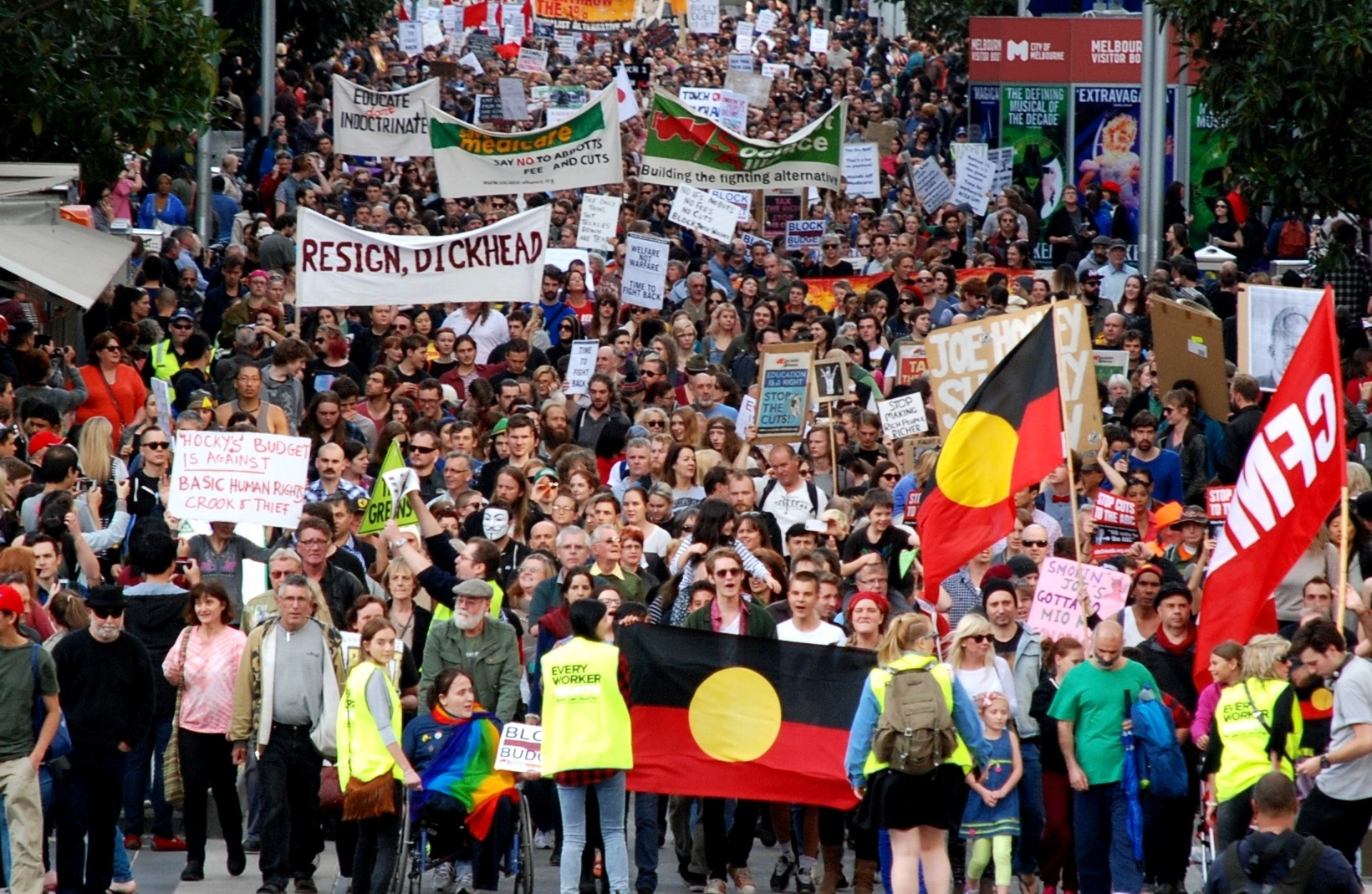 "March in May" protest against the 2014 Australian federal budget on Bourke Street, Melbourne.